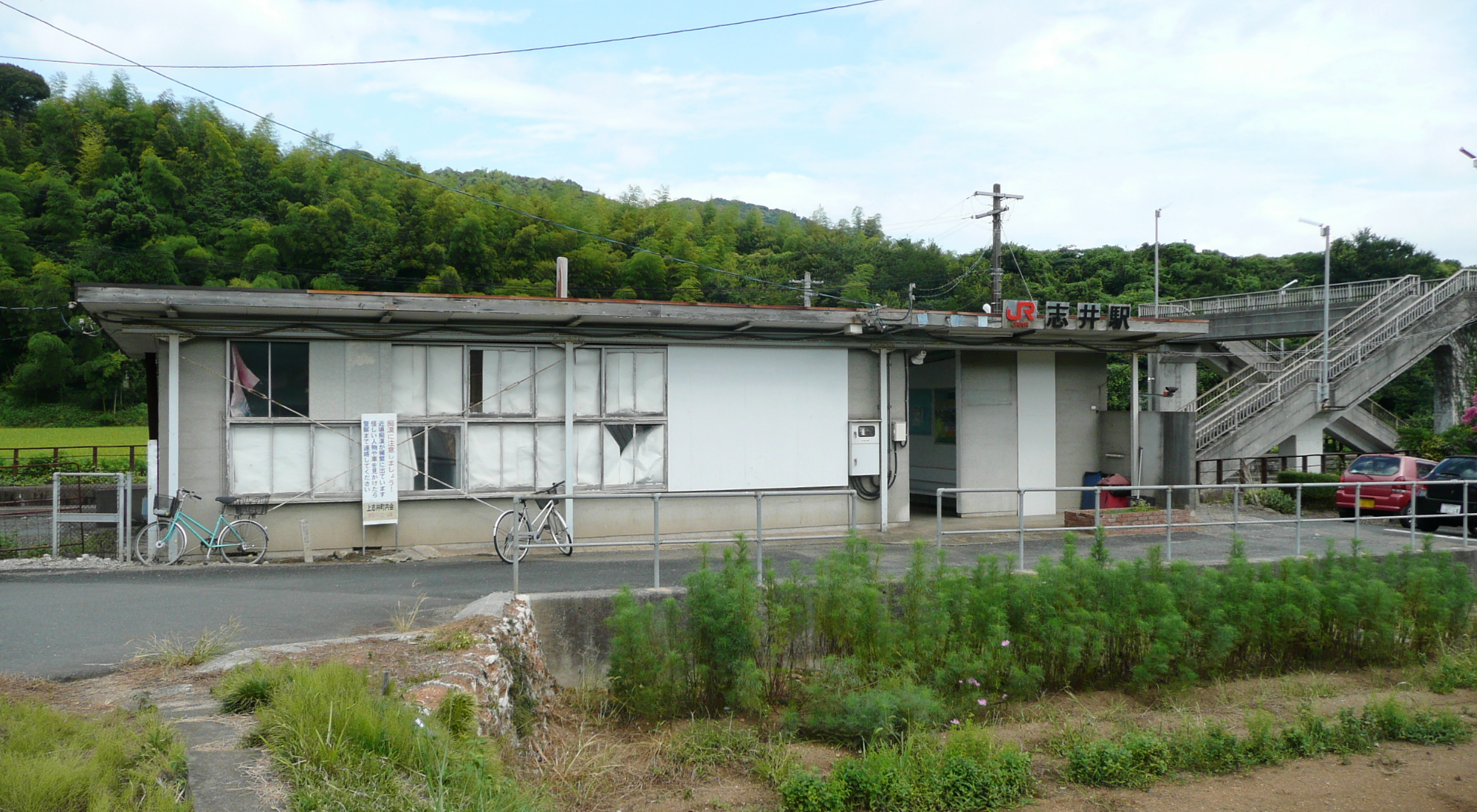 Shii Station, Hita-hikosan line.